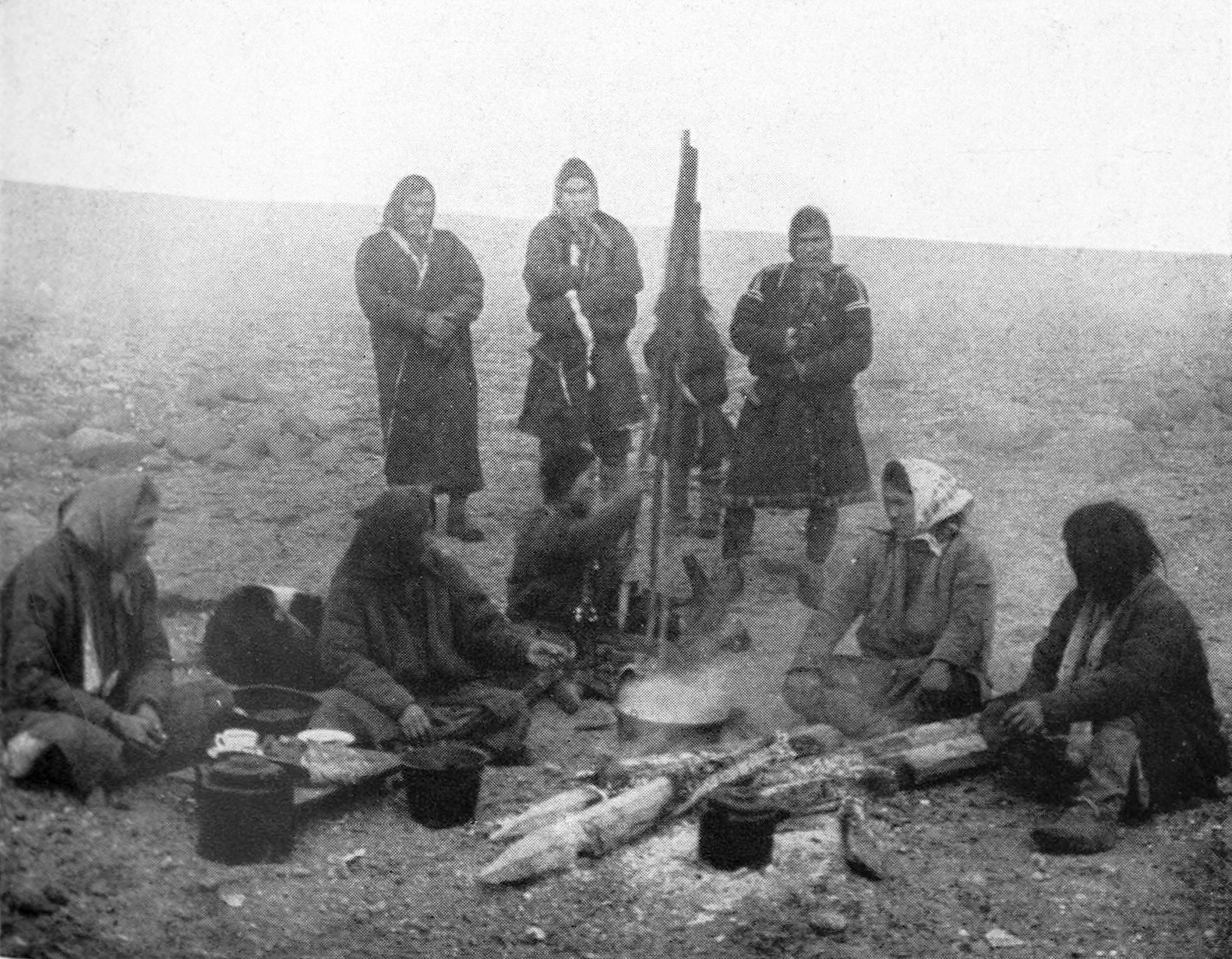 1913 photograph of an encampment of a group of Samoyedic-speaking people. Caption says "Group of Yenisei Samoyedes at Sumarokova".